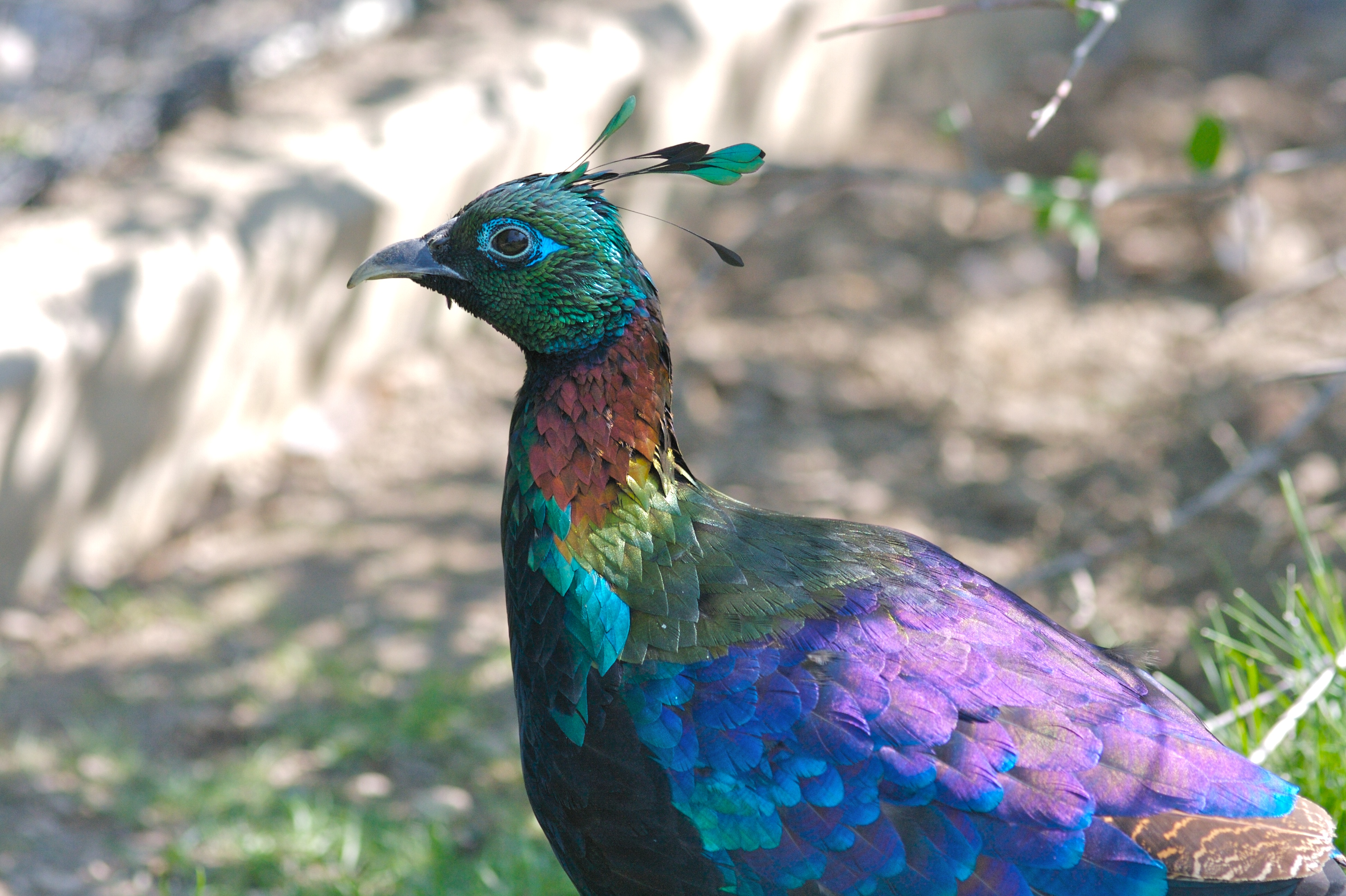 Himalayan Monal Pheasant (Lophophorus impejanus) in Columbus Zoo